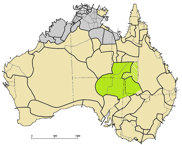 Karnic languages (green) among other Pama–Nyungan (tan). The four solid-green sections are Arabana (west), Palku (north), Karna (central strip), Ngura (east). The striped area to the east is Kungkari and Birria, which may have been Karnic.